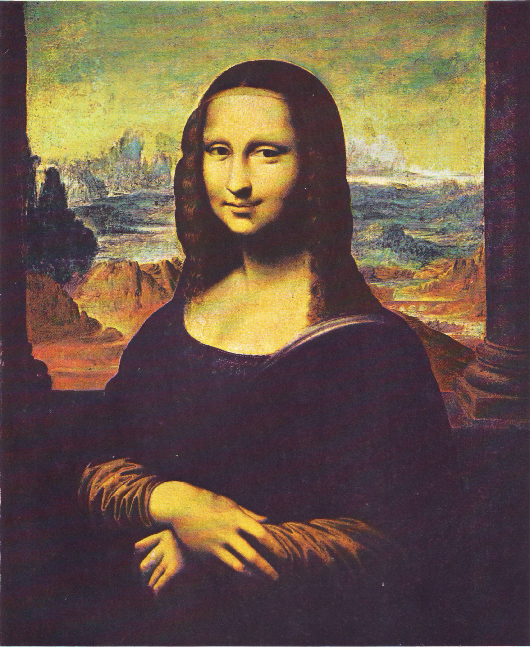 Early replica of Mona Lisa: The Mona Lisa of the Vernon Collection